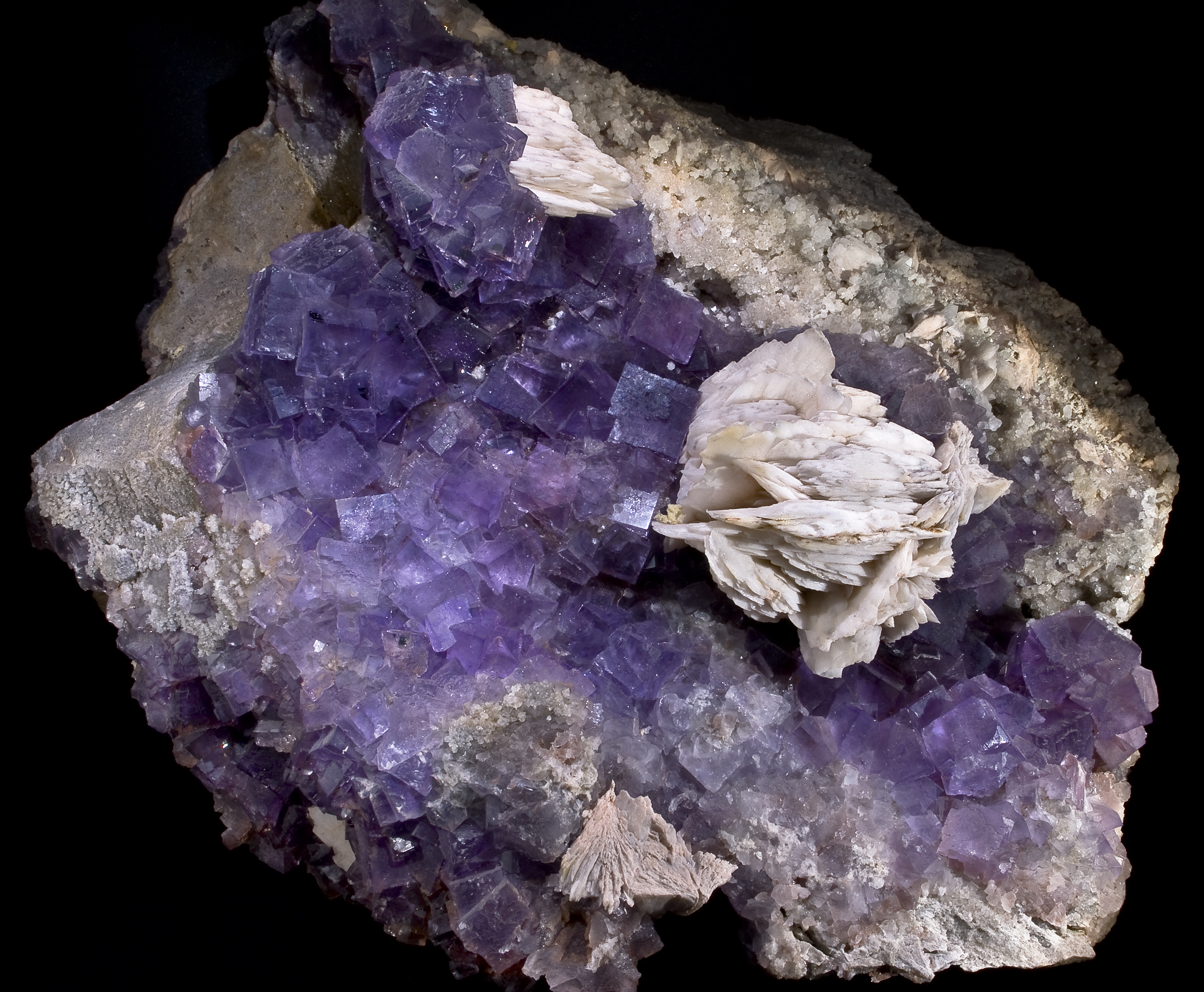 Fluorite with baryte Locality : Berbes Mine, Berbes Mining area, Ribadesella, Asturias, Spain Size : 34x28cm